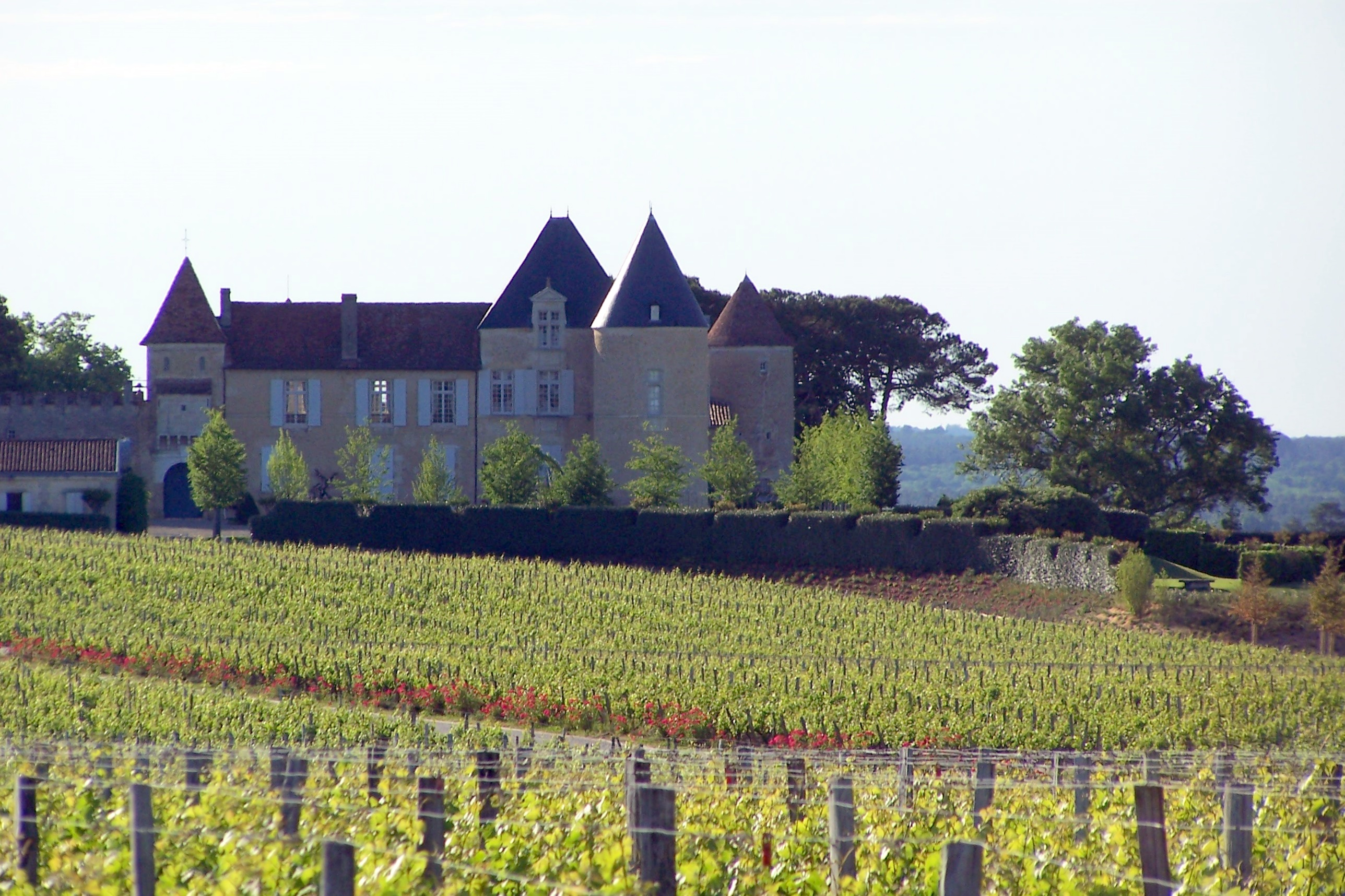 Château d'Yquem in Sauternes (Gironde, France)